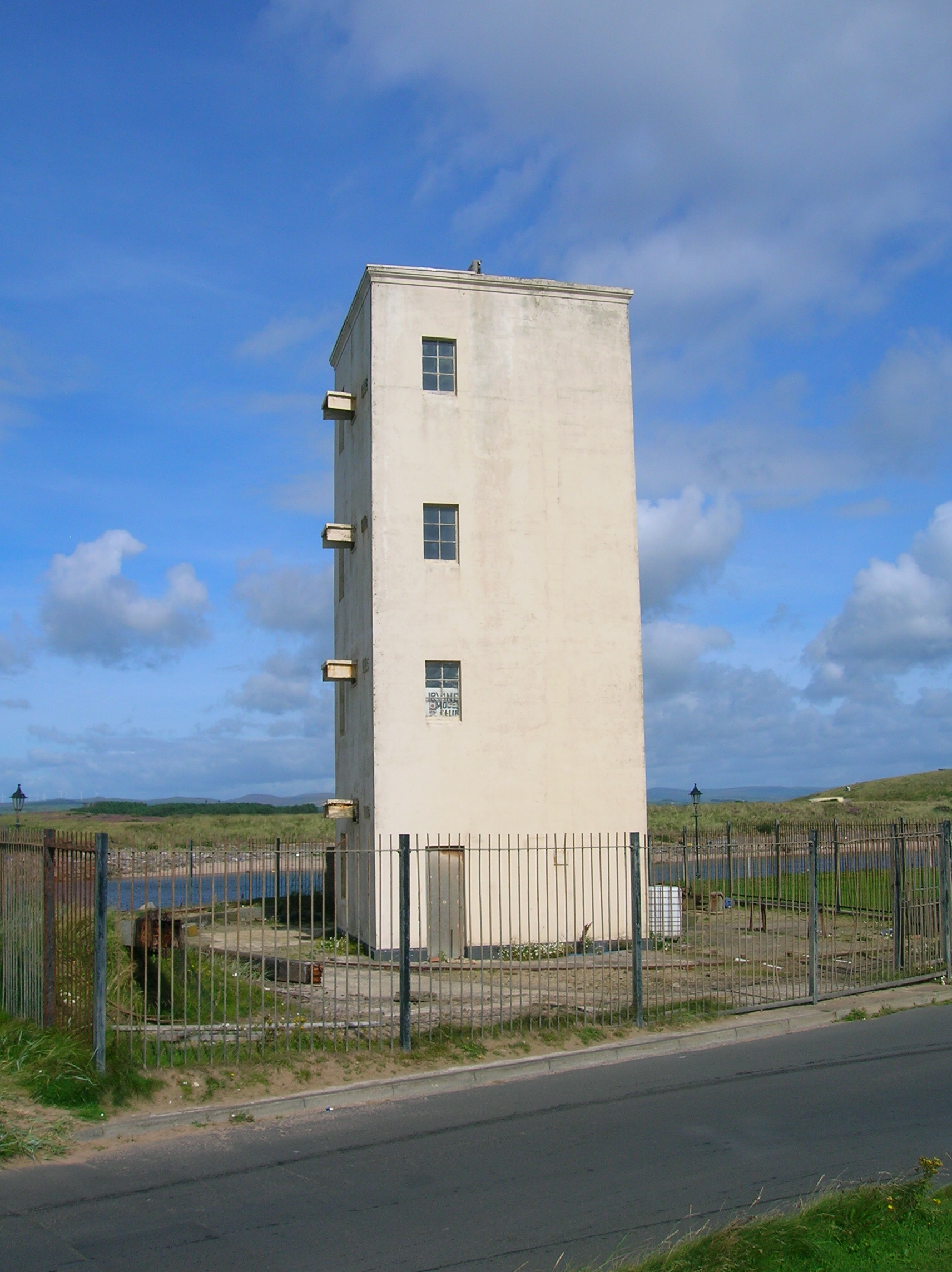 Boyd's Automatic tide signalling apparatus or 'Pilot House', Irvine, North Ayrshire, Scotland. Showing the side facing towards 'Troon'. The coloured light housings are visibly jutting out. Rosser 19:36, 26 August 2007 (UTC)